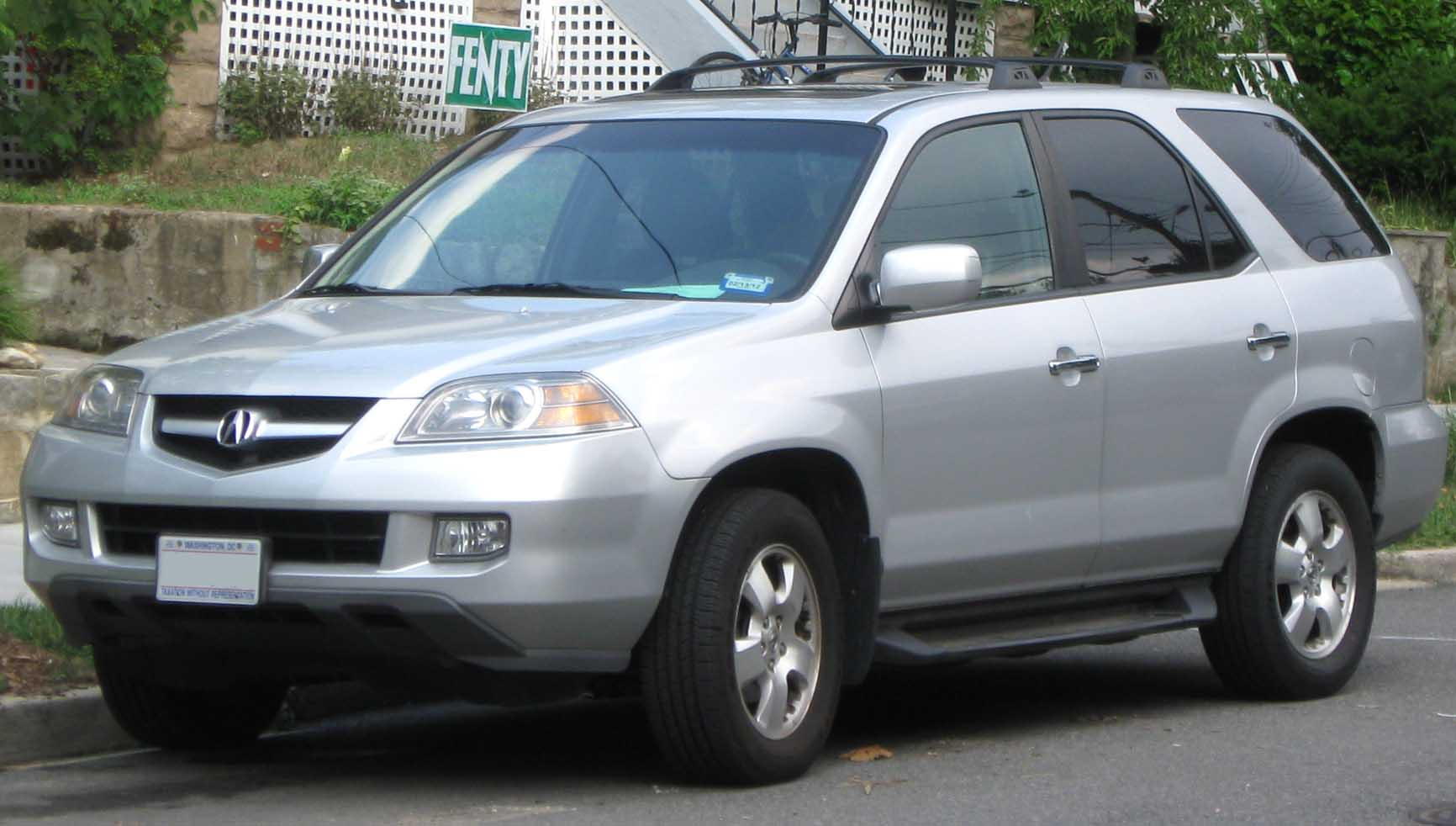 2004-2006 Acura MDX photographed in Washington, D.C., USA.